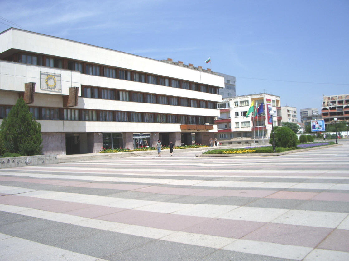 The building of Yambol Municipality, Yambol, Bulgaria.